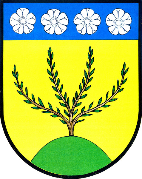 Coat of amrs of Oskořínek , District Nymburk, Czech republic